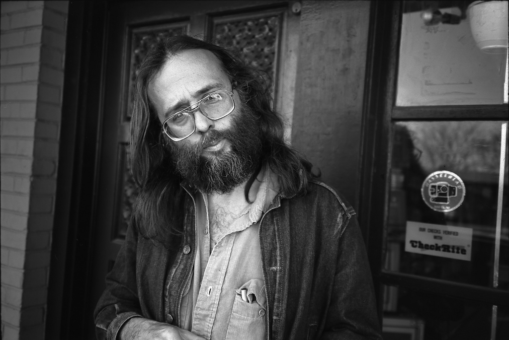 Dr. Charles "Chuck" Taylor, Jr., poet, publisher, writer, scholar in Austin, Texas